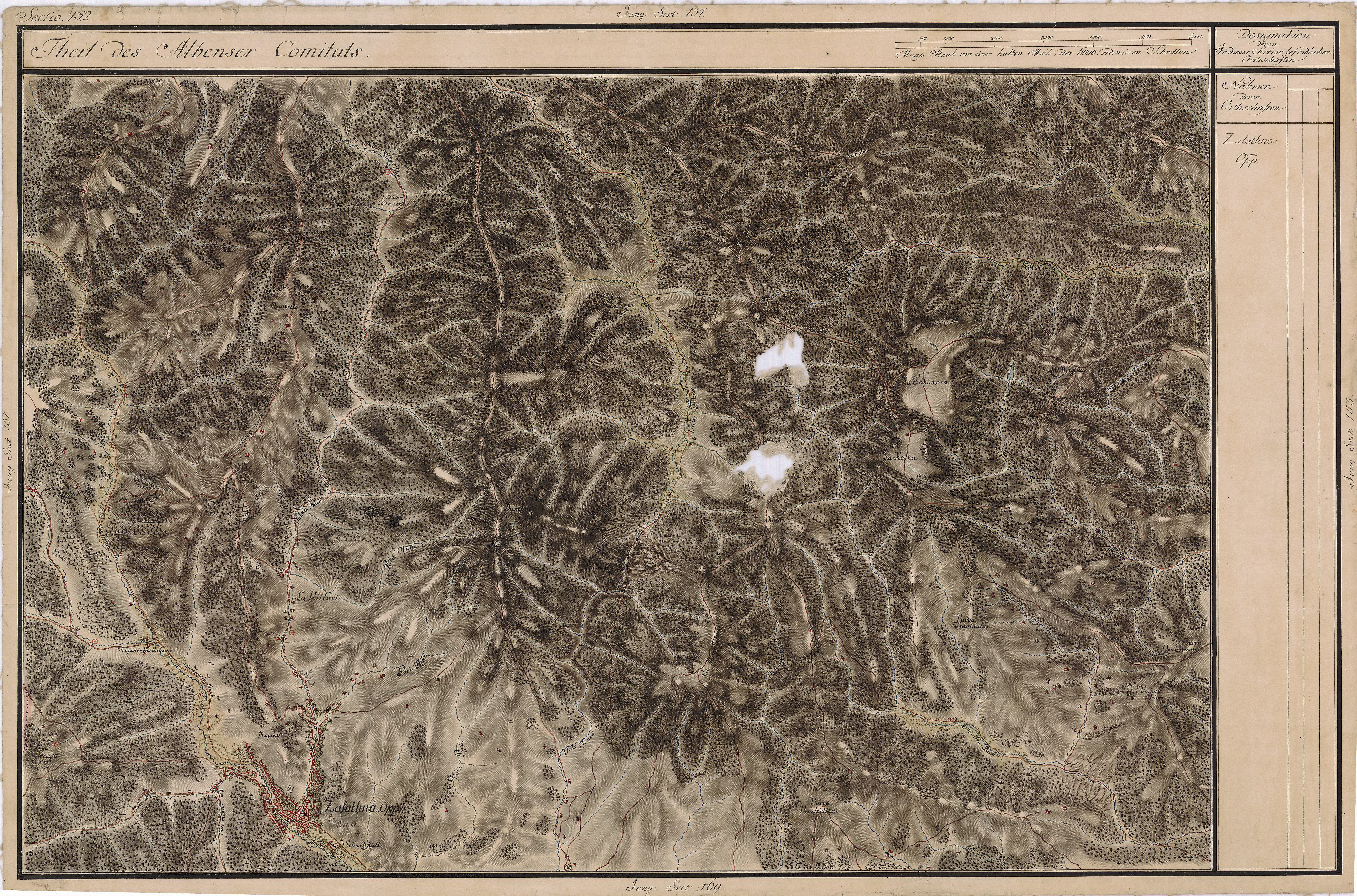 Grand Duchy of Transylvania, 1769-1773. Josephinische Landaufnahme pg.152